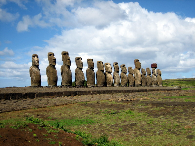 Photo taken by Ian Sewell, July, 2006. Ahu Tongariki on Easter Island. These moai were restored in the 1990's by a Japanese research team after a cyclone knocked them over in the 1960's.